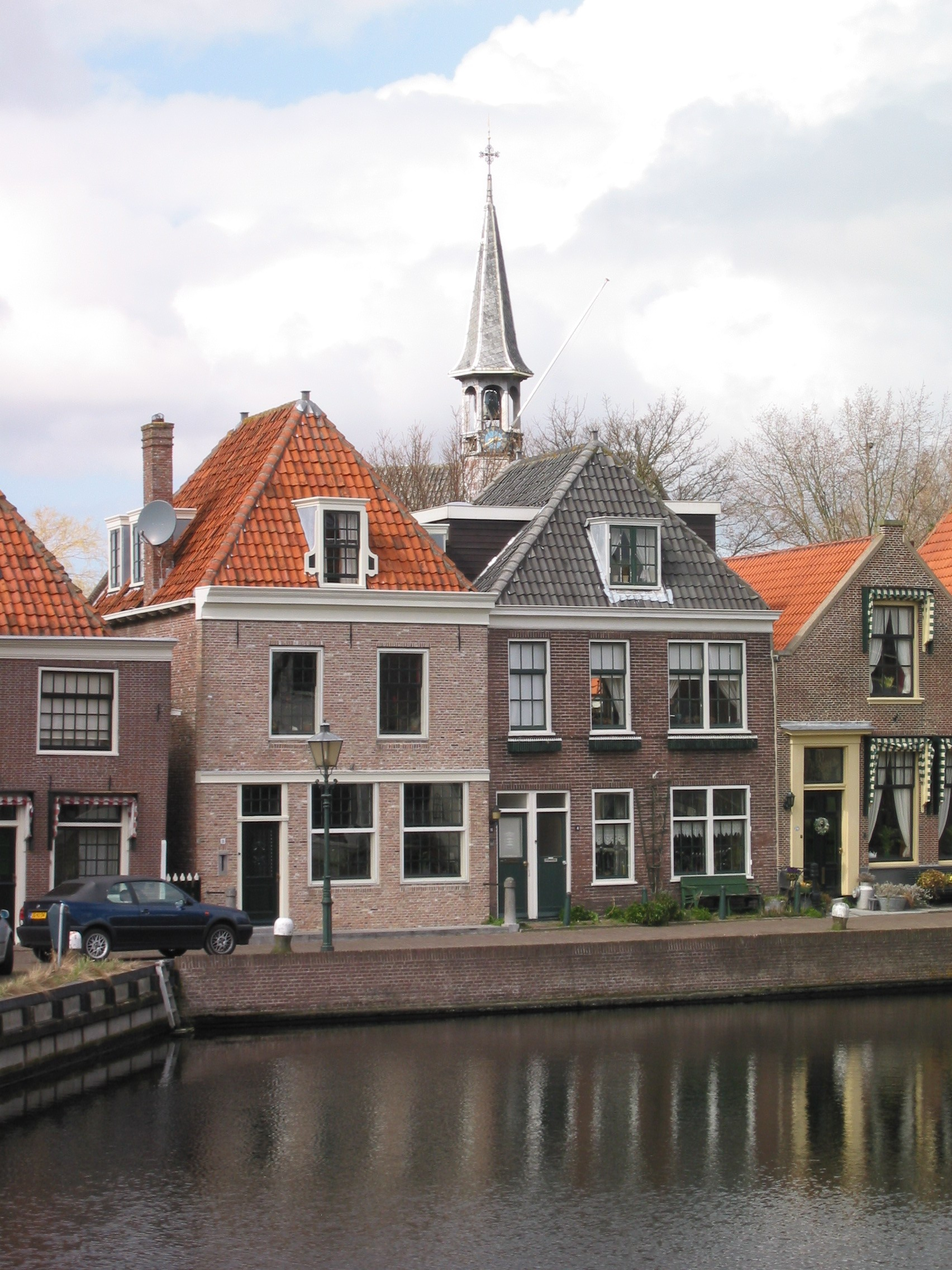 A view of Spaarndam with its church in the background